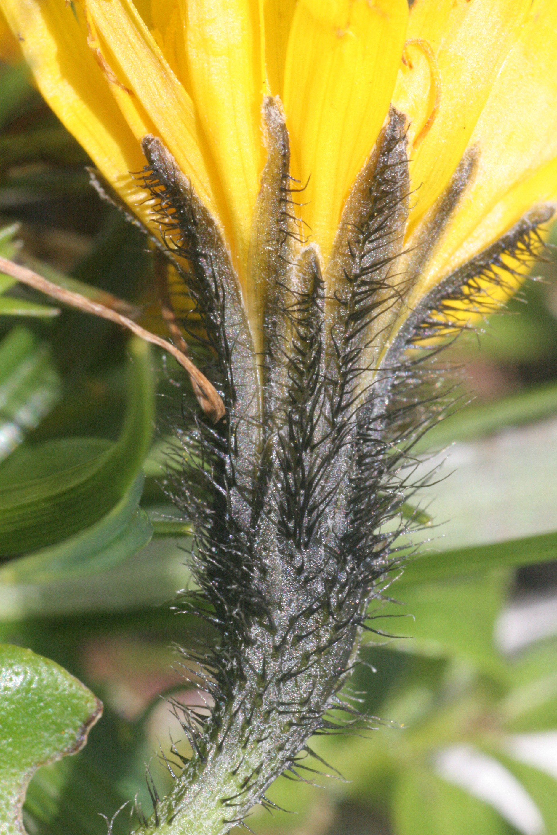 Scorzoneroides montana, Leontodon montanus